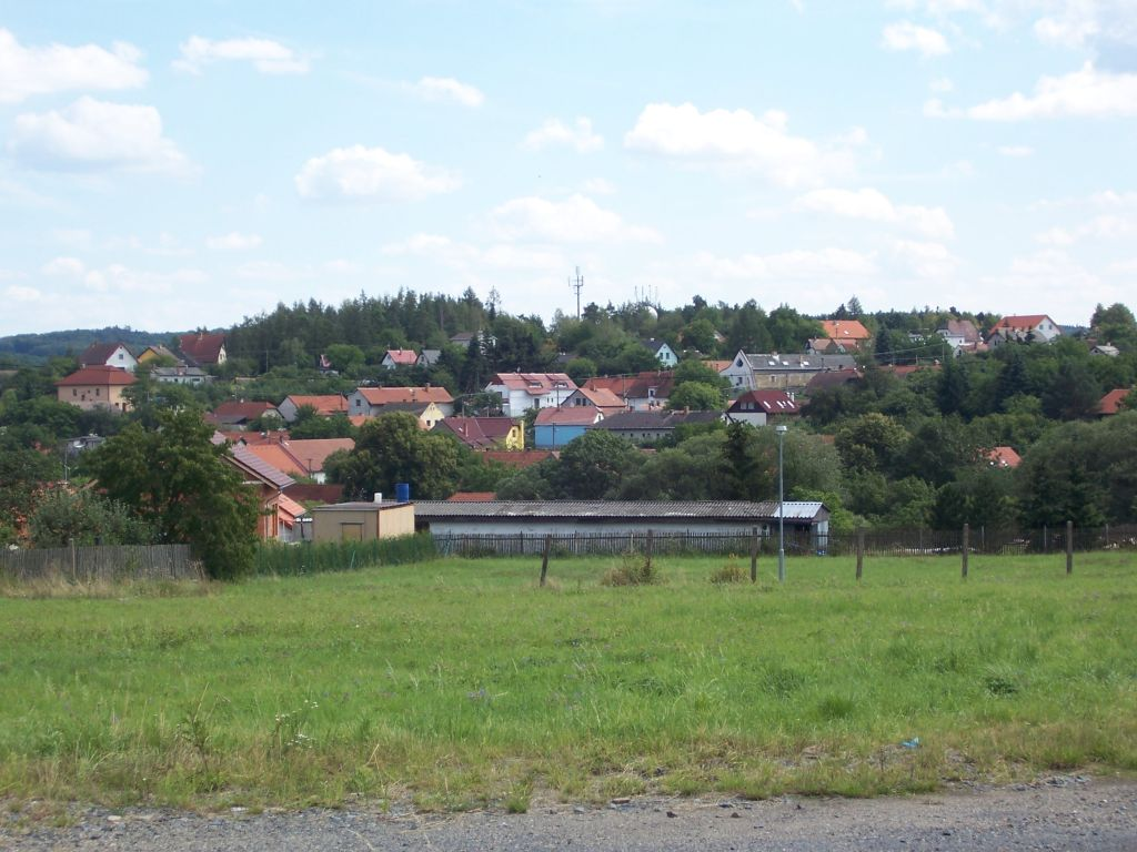 Okrouhlo